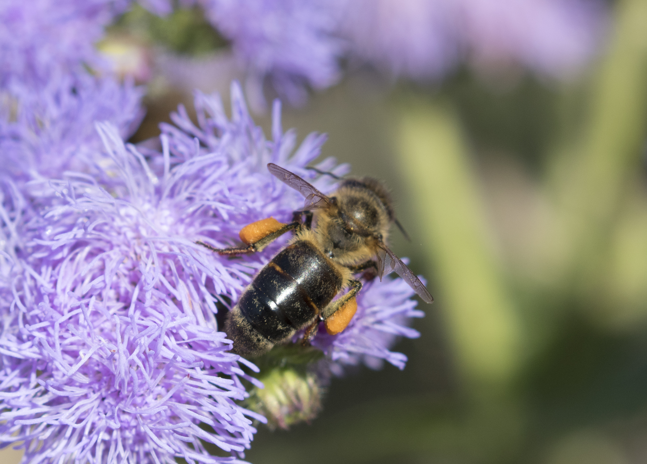 Probably a crossbred Caucasian honey bee (Apis mellifera caucasia). Espiye - Giresun, Turkey.